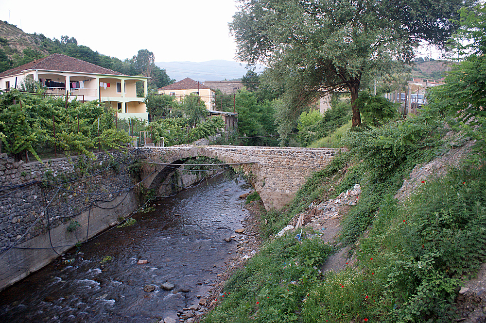 Old Bridge in the center of Klos, Mat District, Albania